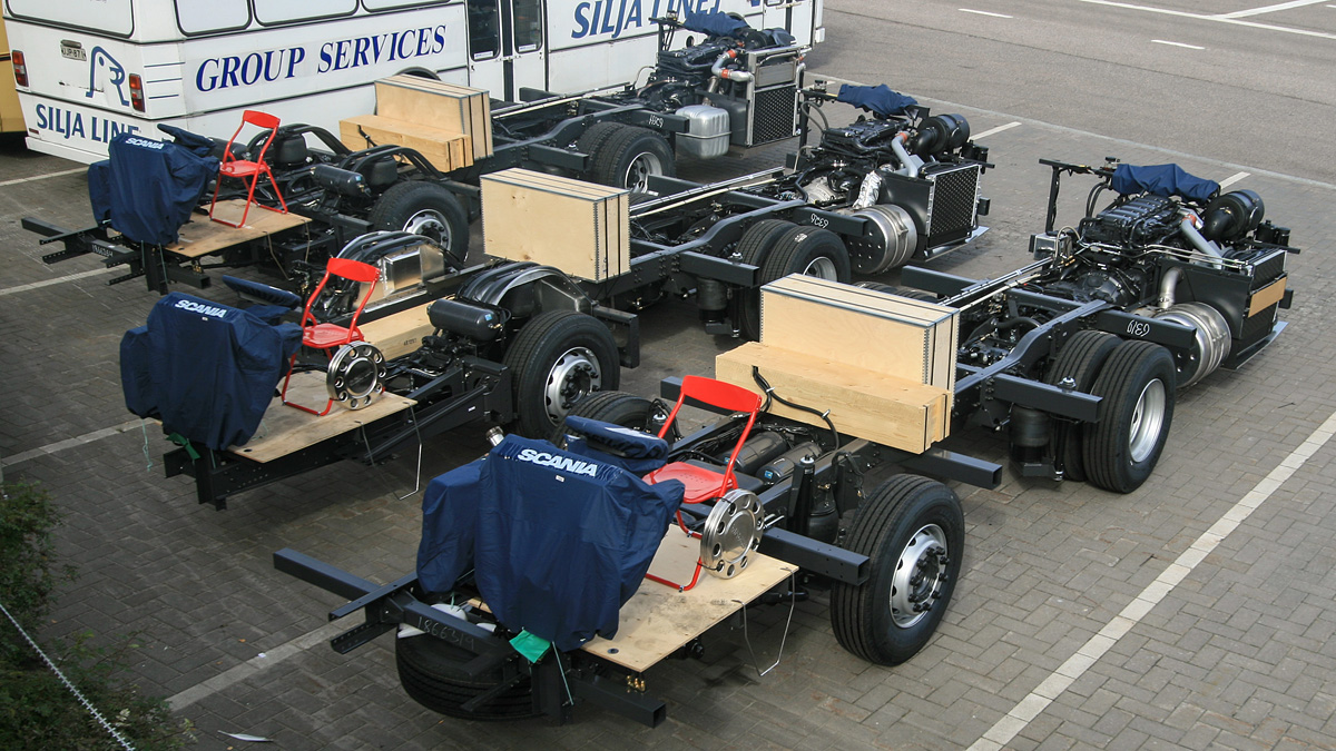 From left: Scania K EB4x2NI (DC13 12.7 L, Euro V), K UB4x2LB (DC9 9.3 L, Euro V) and K IB4x2NB (DC12 11.7 L, Euro IV) chassis, heading for Lahden Autokori in Lahti and Villähde.